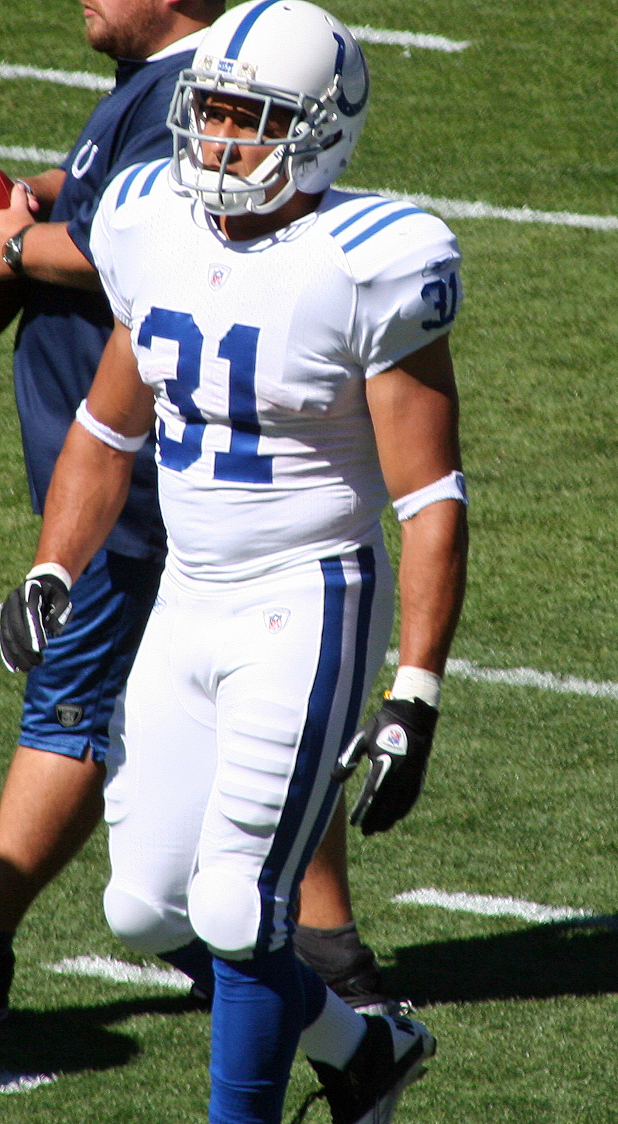 Donald Brown, a player on the Indianapolis Colts American football team.